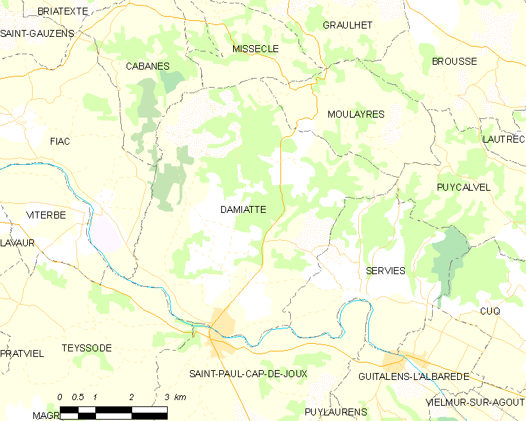 Map of French municipality Damiatte